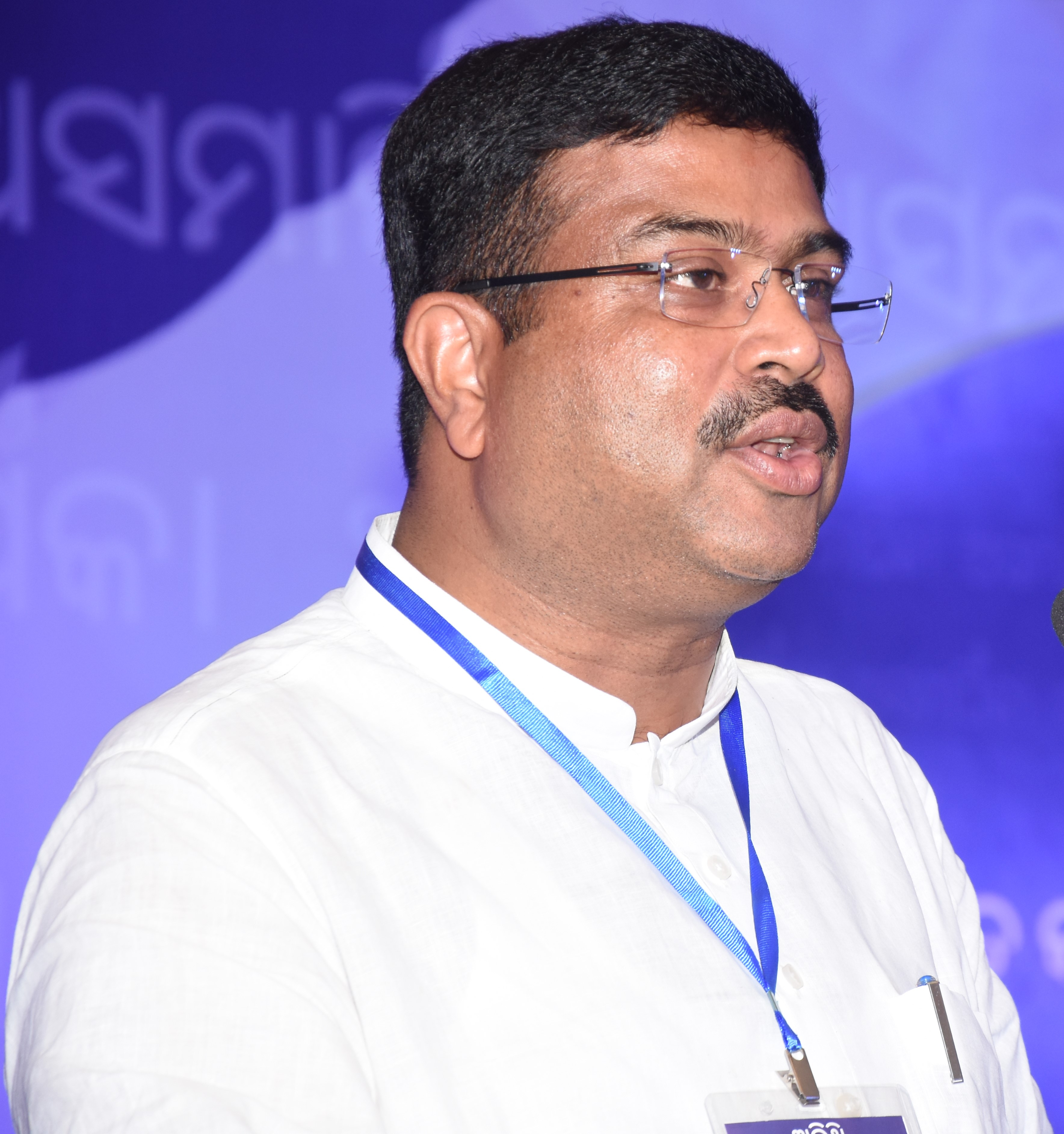 India's PNG Minister Dharmendra Pradhan addresses at an event in Bhubaneswar organised by Odia Media Private Limited & PEN IN Books